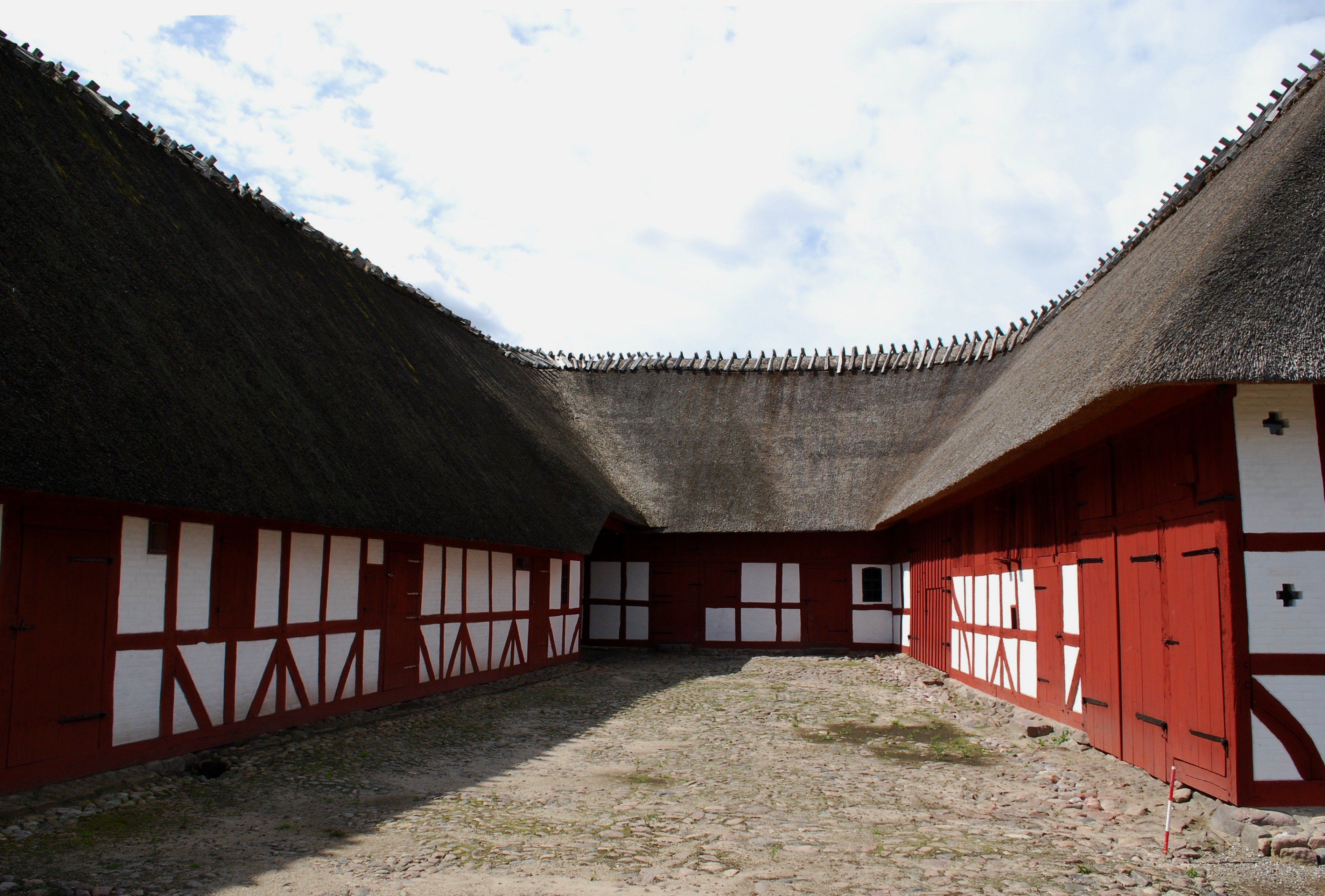 Jollmands Gård (farm), Holm, Als, Denmark - this half- timbered farm, which was orginally named Lundsbjerggård, is a so-called "hook" farm. It was built in the 18th Century and is the oldest farm in Holm.